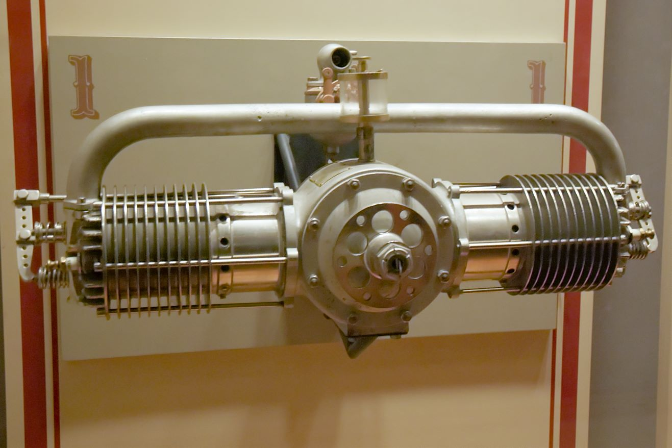 Early example of a flat twin aircraft engine, on display in the National Air & Space Museum in Washington, D.C. It is suitable only for single seat aircraft and was used in a quadraplane in approximately 1913.